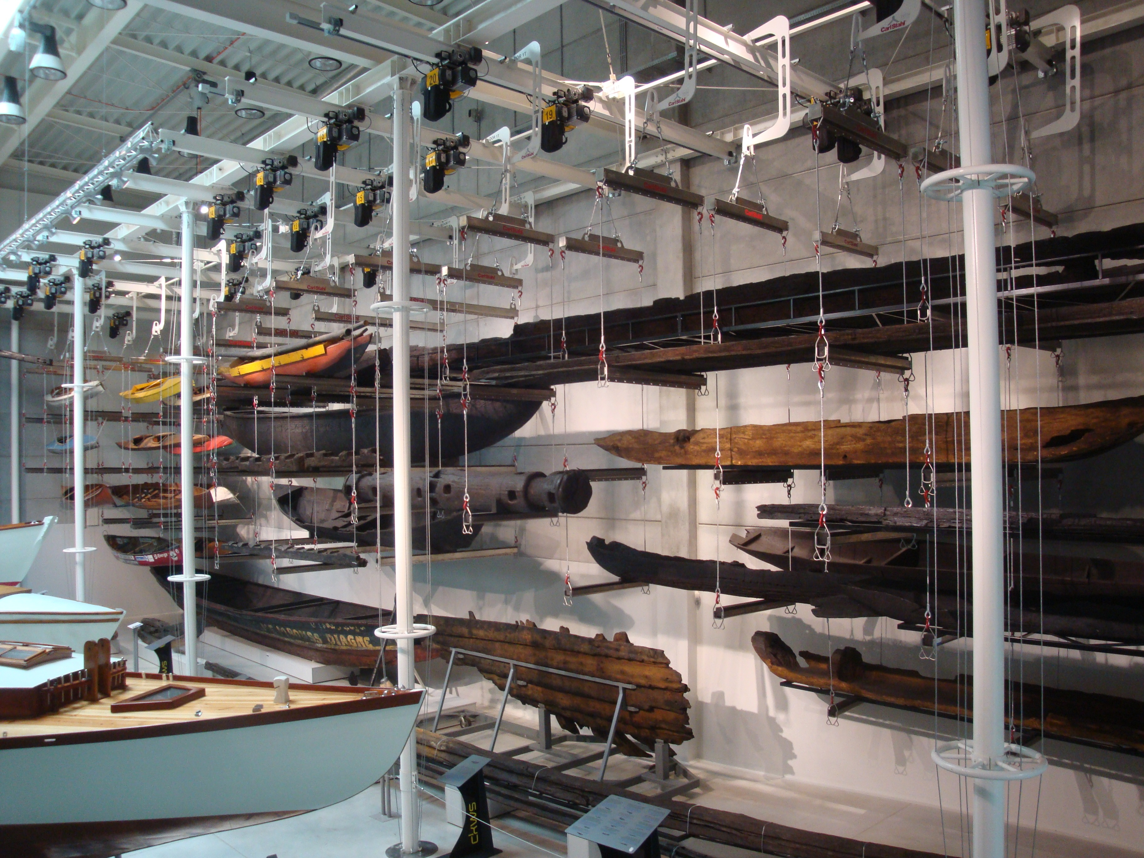 Boats exhibited in Shipwreck Conservation Centre in Tczew (Centrum Konserwacji Wraków Statków). Shipwreck Conservation Centre in Tczew is branch of National Maritime Museum in Gdańsk, Poland.